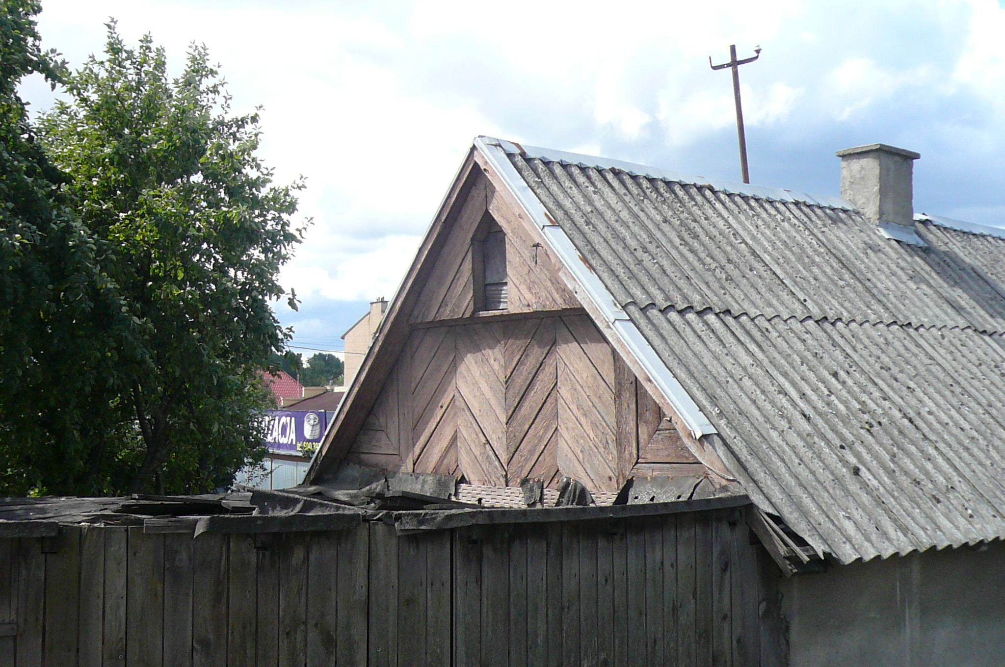 The wooden house in Ząbki, 118 Piłsudski Street